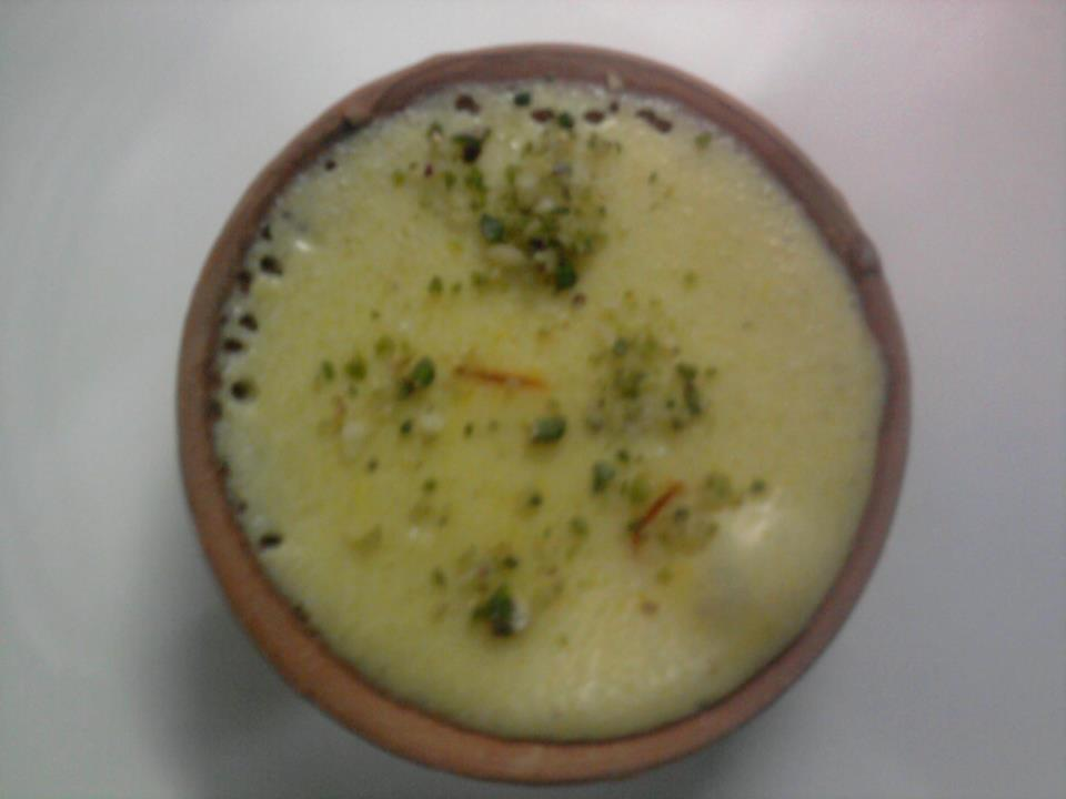 This is a picture of Iranian rice pudding or firni which has been set in a shallow earthen dish. Strands of saffron and chopped pistachios have been used for garnishing.